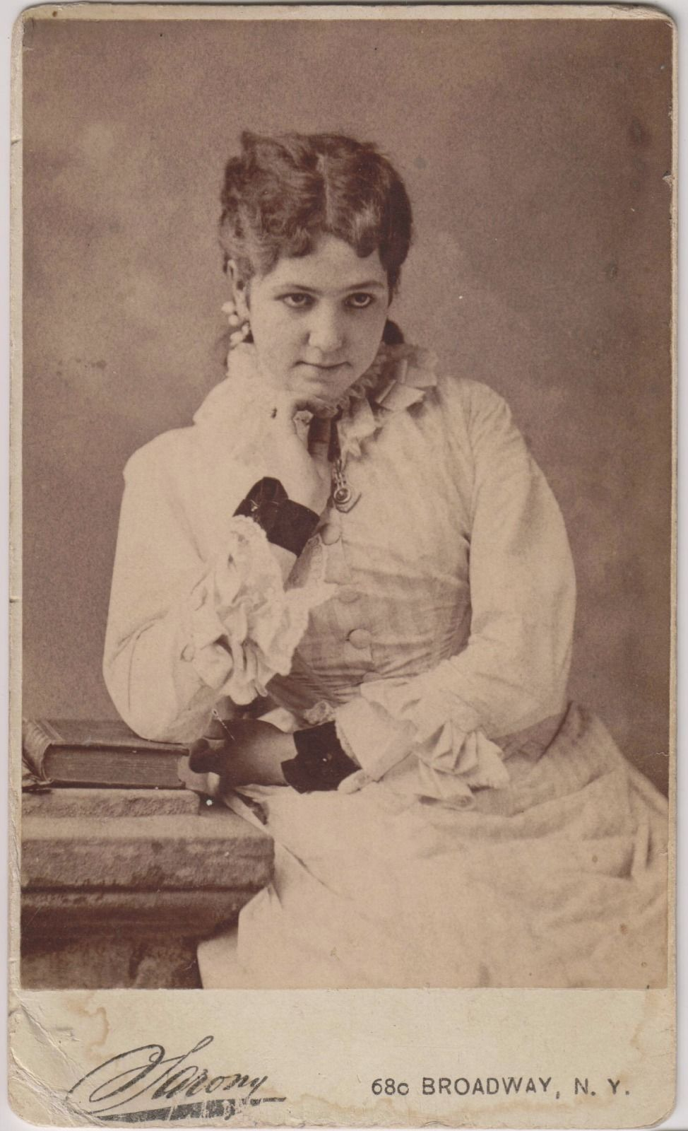 Photograph of actress Emily Rigl.